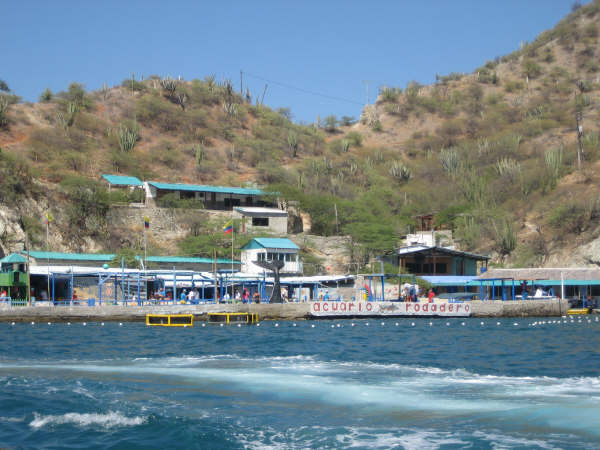 Image of the Aguarium - Santa Marta, Colombia